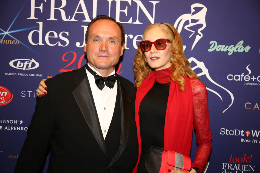 Austrian businessman and former alpine skier Klaus Heidegger, and his wife, American businesswoman Jami Morse Heidegger, both of Kiehl's cosmetics, at the 2014 Look! magazine Woman of the Year awards in Vienna.